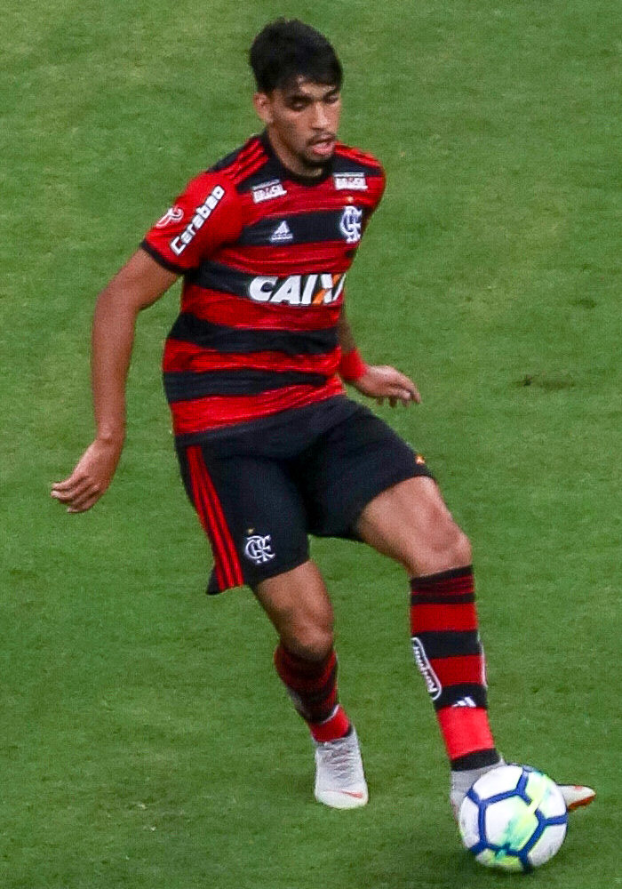 2018 Campeonato Brasileiro Série A – Flamengo v Vasco, 15 September 2018